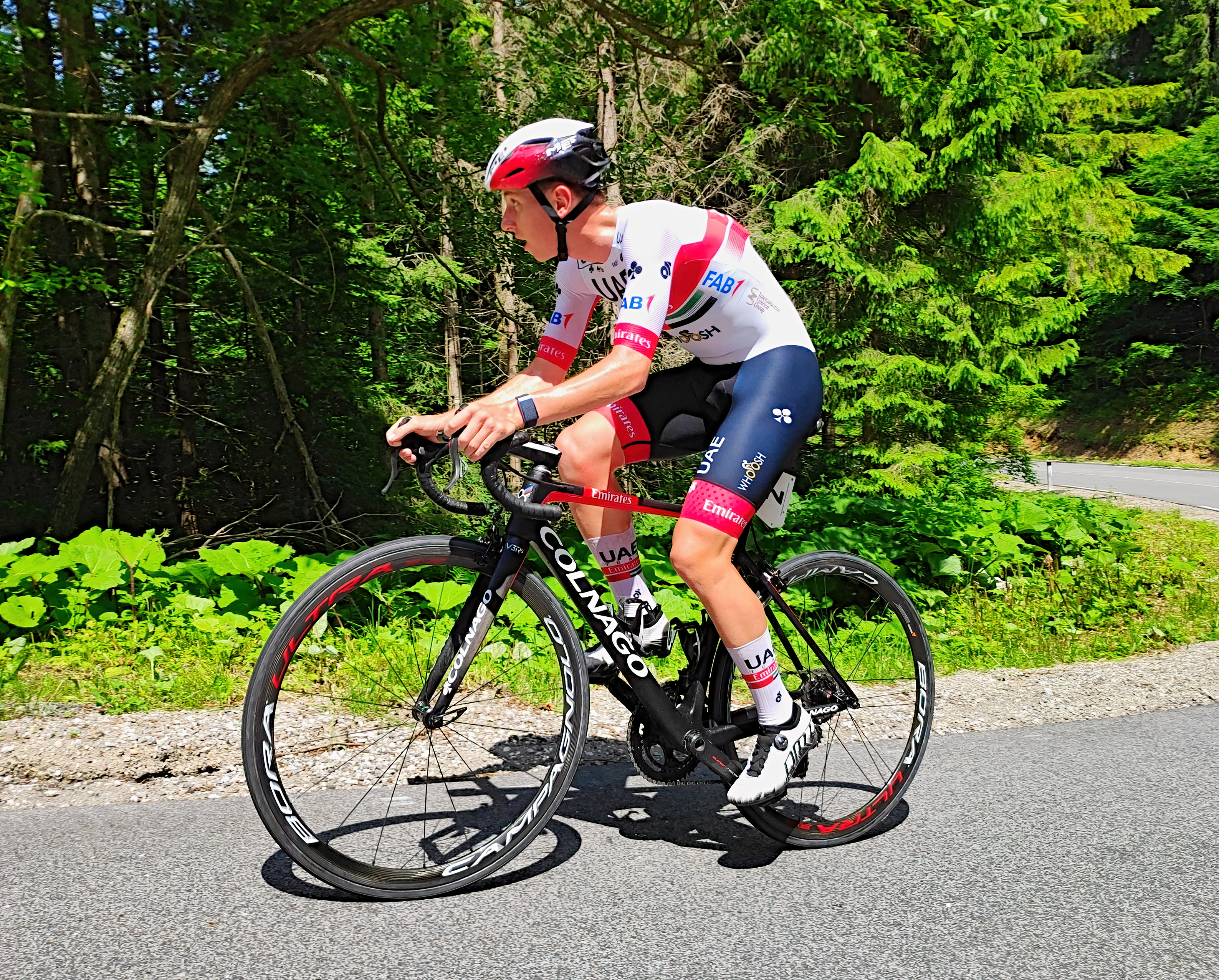 Tadej Pogačar (2020 Slovenian Time Trial championship), Pokljuka, Slovenia